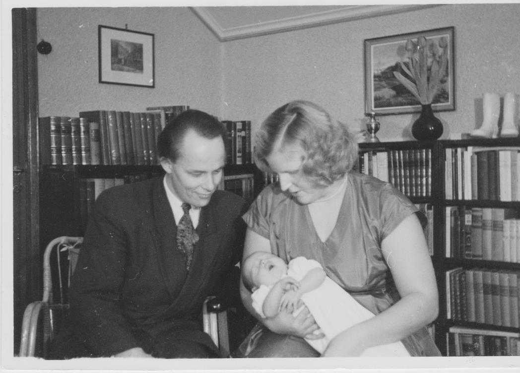 Photograph of the Finnish editor Keijo Virtamo, his wife Raili, and their first child.